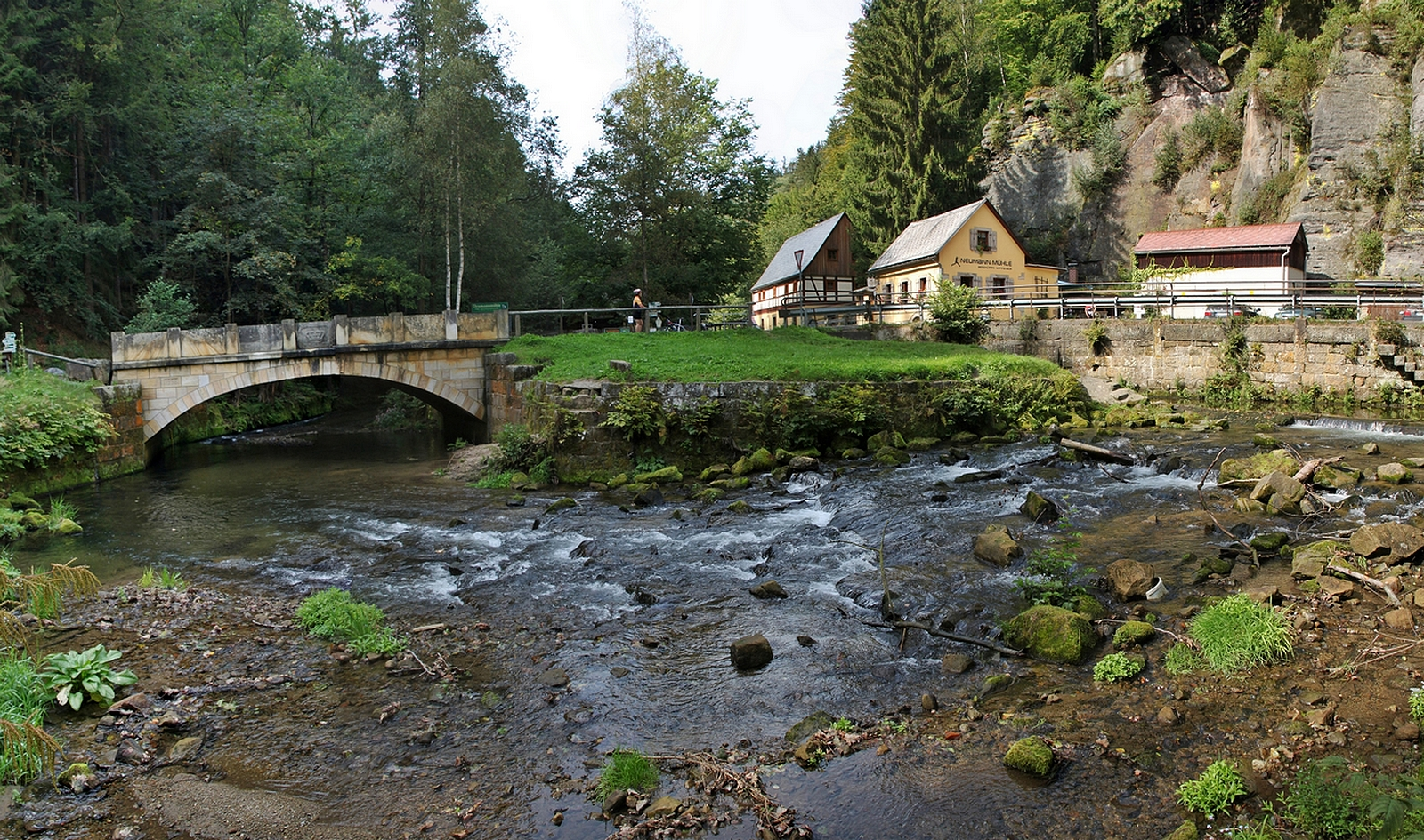 this image shows the Kirnitzsch with the Neumannmühle, a watermill, in the background.